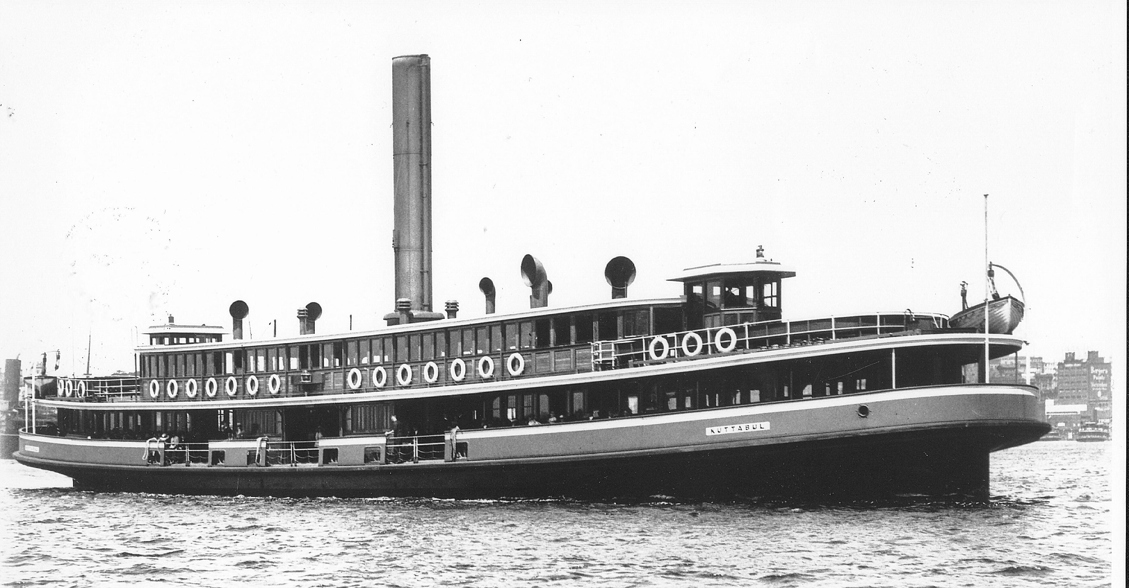 Sydney ferry KUTTABUL as built 1922. [A-00075995]. City of Sydney Archives, accessed 03 Jul 2020